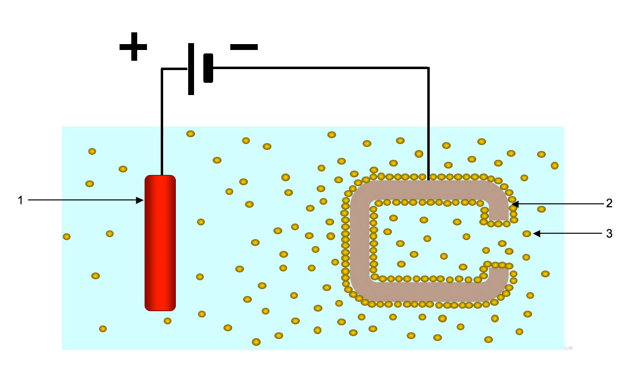 Principle drawing of the electrophoretic deposition process.